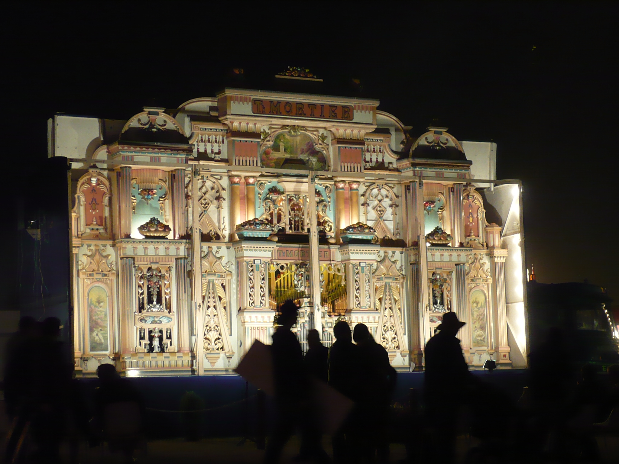 Mortier organ presented at Great Dorset Steam Fair